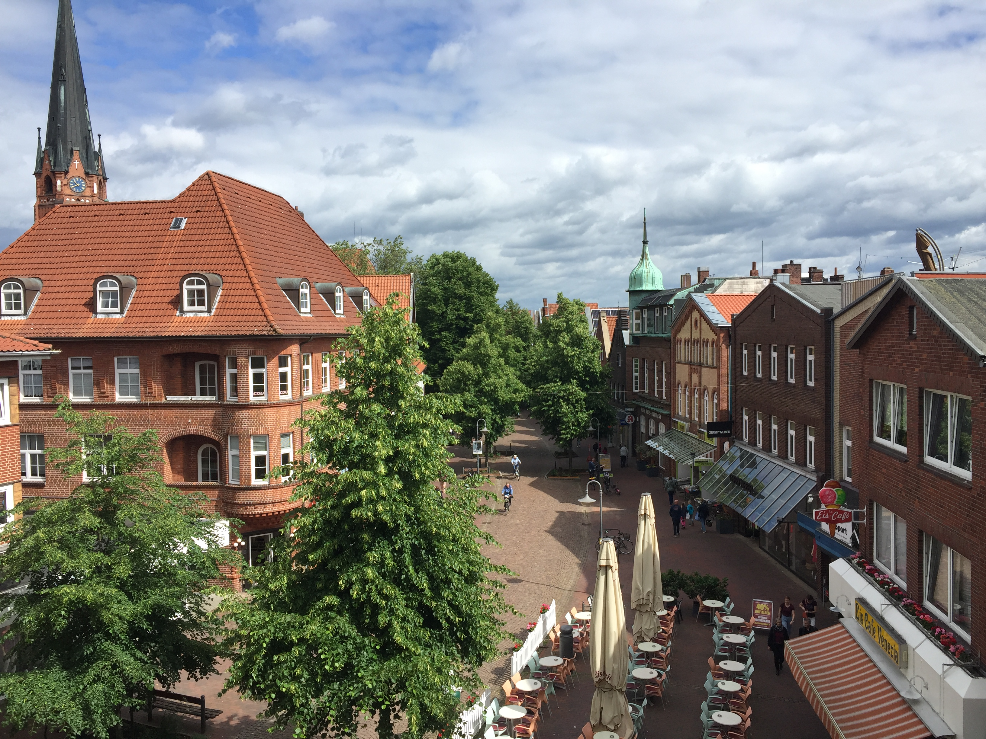 View of the Rathausstraße in Winsen Luhe on 8 June 2019. Photographed from the third floor of the fashion house Düsenberg & Harms